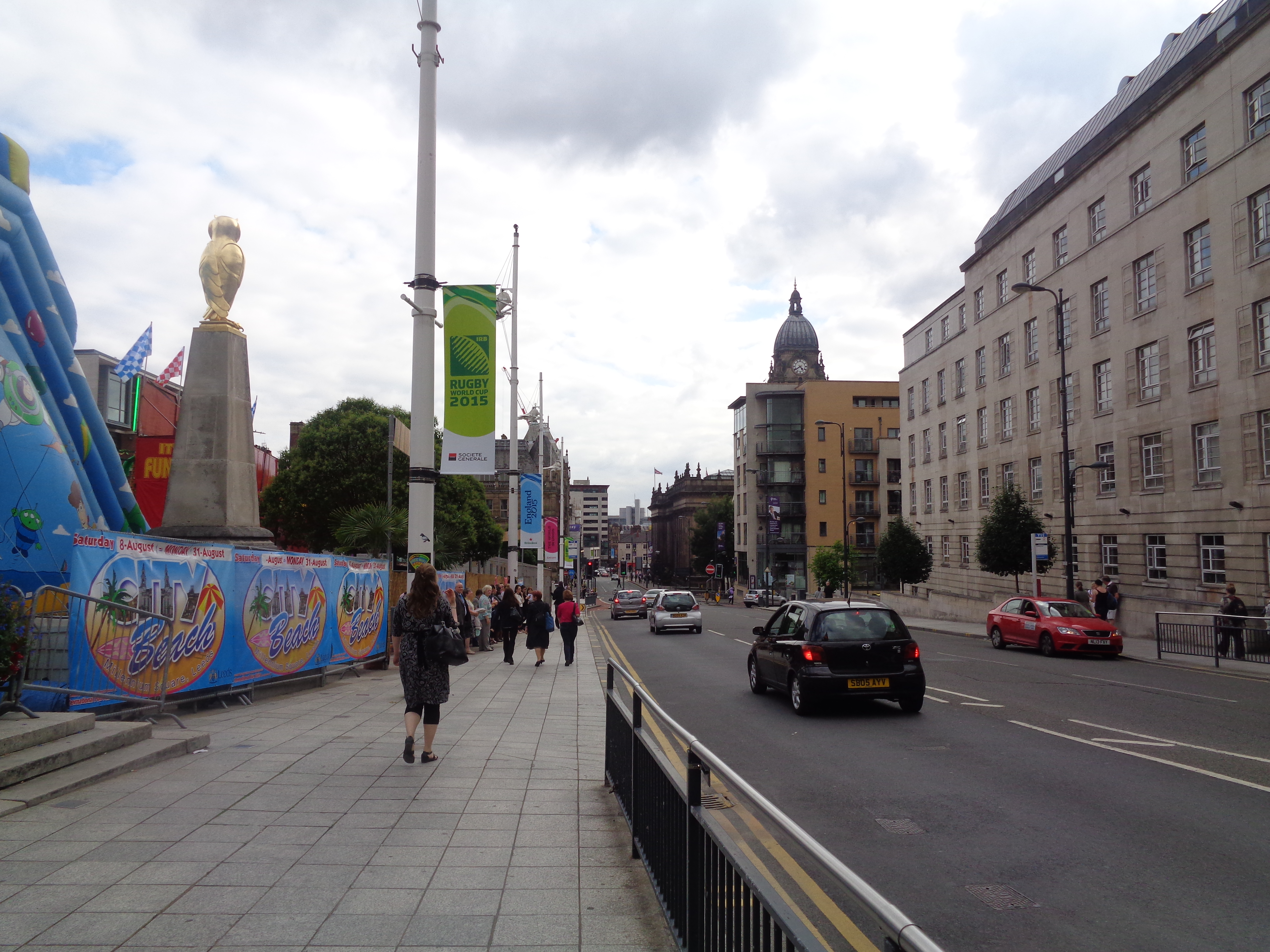 A view down Calverley Street in Leeds, West Yorkshire. Banners for the 2015 Rugby Union World Cup can be seen which will be soon coming to Leeds. Taken on the afternoon of Tuesday the 11th of August 2015.